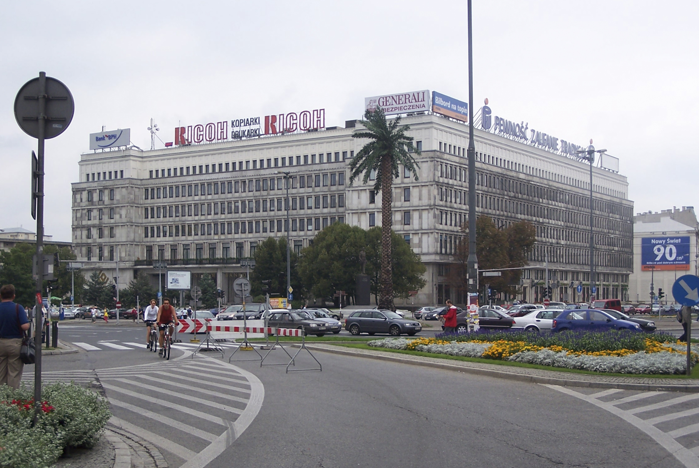 The former building of the Central Committee of the Polish United Workers' Party. The Polish People's Republic.